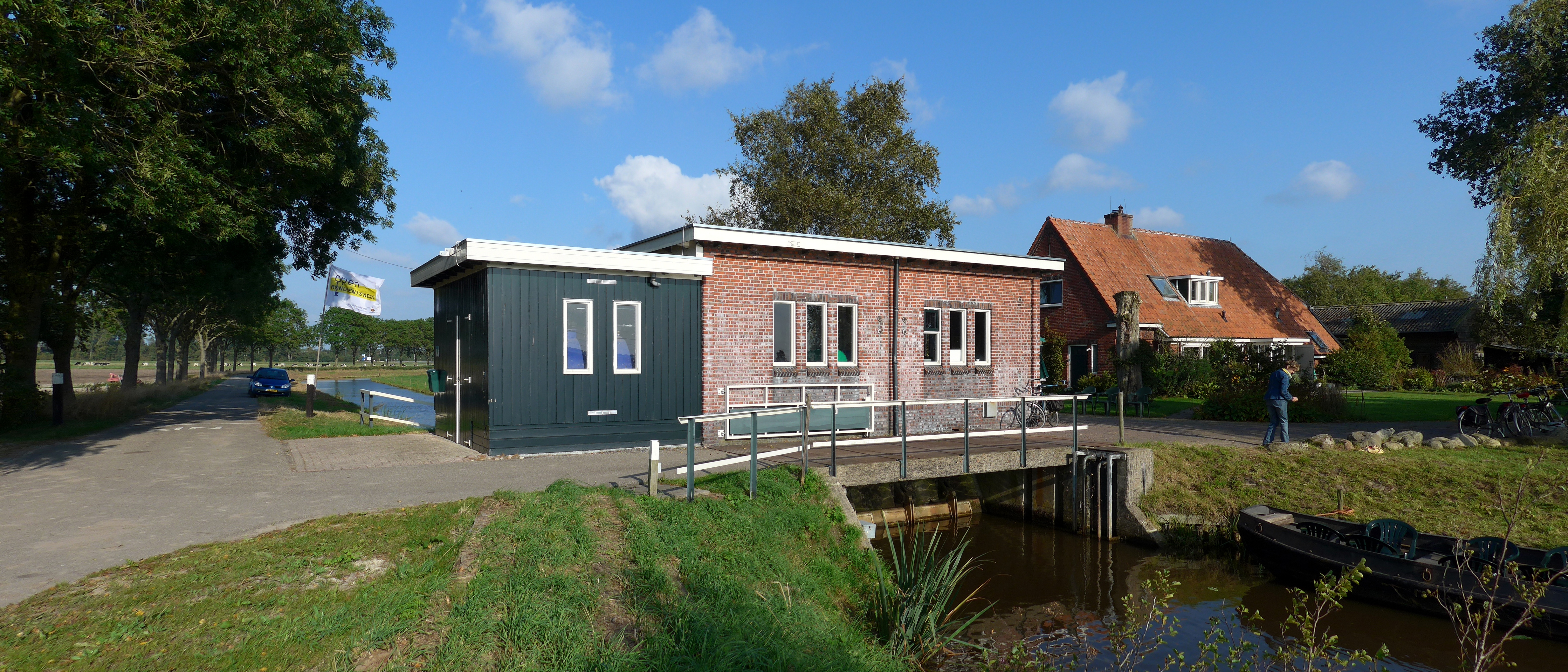 Pumping station near Peizermade, a village in in the Dutch province of Drenthe.